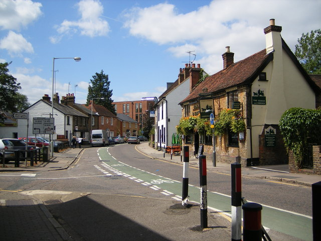 High Street, Rickmansworth. There are shops in Rickmansworth High Street, but at the other end of the road. The Coach & Horses (right) can also be seen on 83408